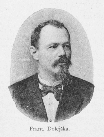 Portrait of František Dolejška (1838-1909), Czech high school teacher and graphologist.